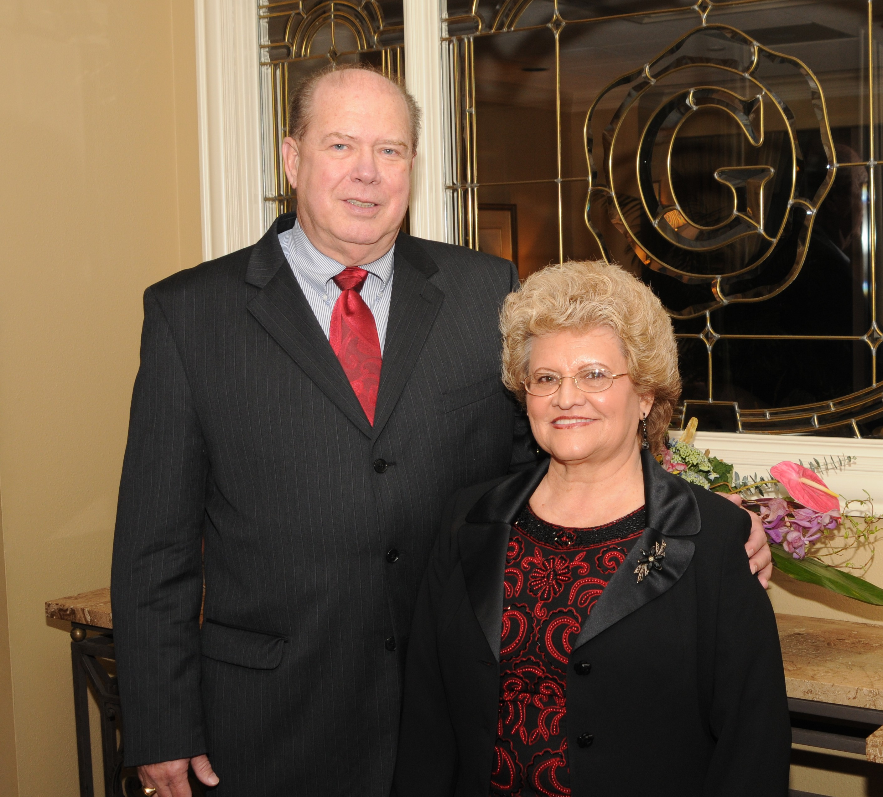 Billy and Billie Davis at Georgian Club